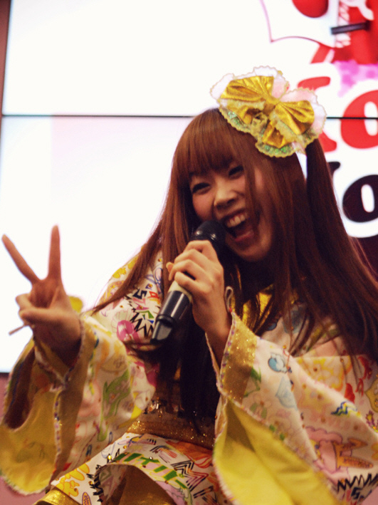 dempagumi.inc // でんぱ組.inc Live in Jakarta // KOKORONOTOMO